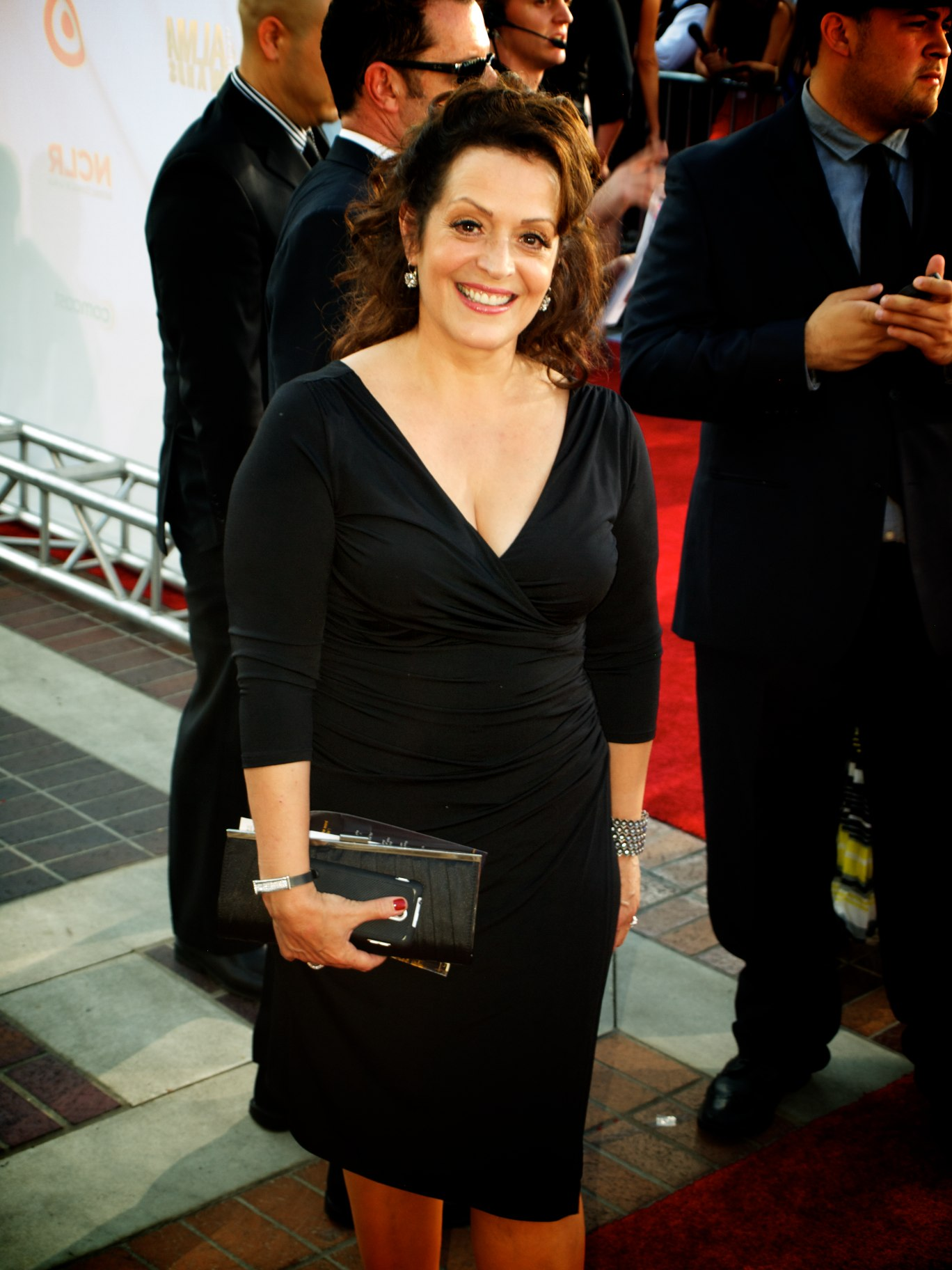 Marlene Forte at the Alma Awards 2012